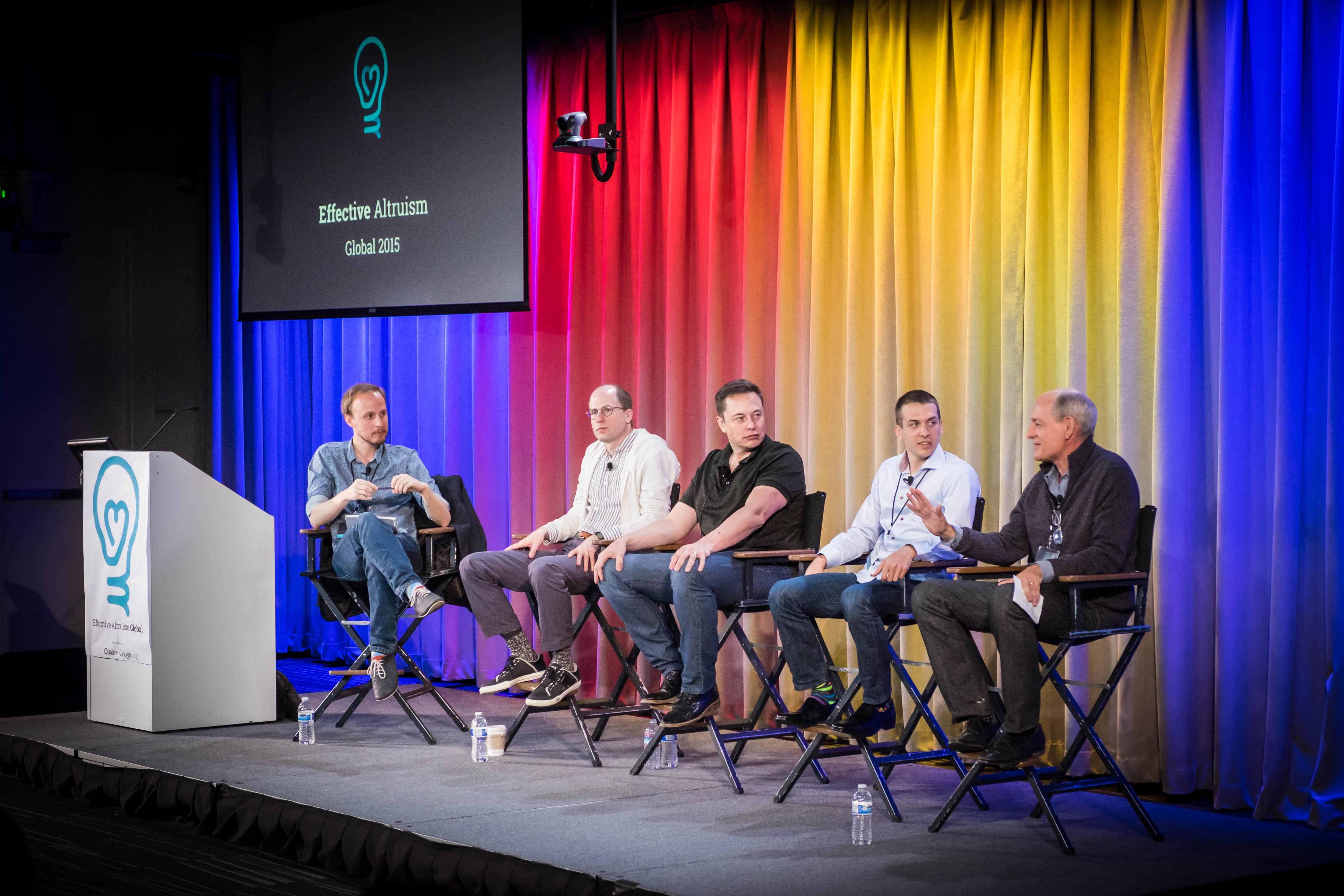 Nick Bostrom, Elon Musk, Nate Soares, and Stuart Russell talking about AI and existential risk. Photo taken at the Effective Altruism Global conference, Mountain View, CA, in August 2015.